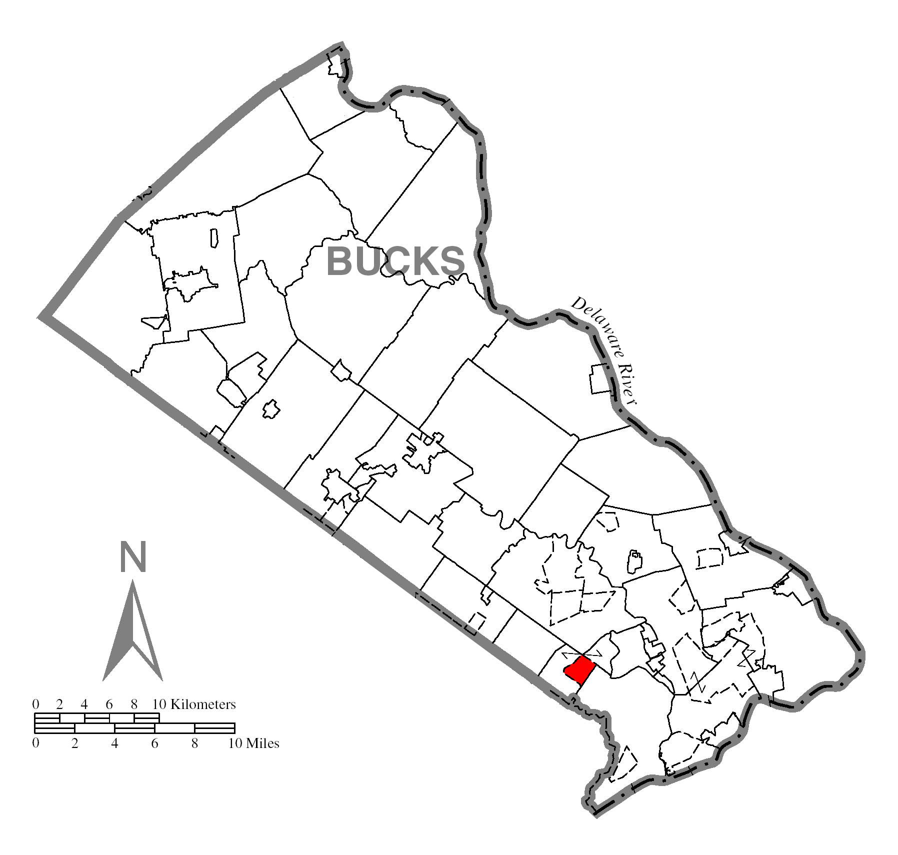 A map of Bucks County showing Feasterville-Trevose, Pennsylvania (alternate) highlighted on the map.